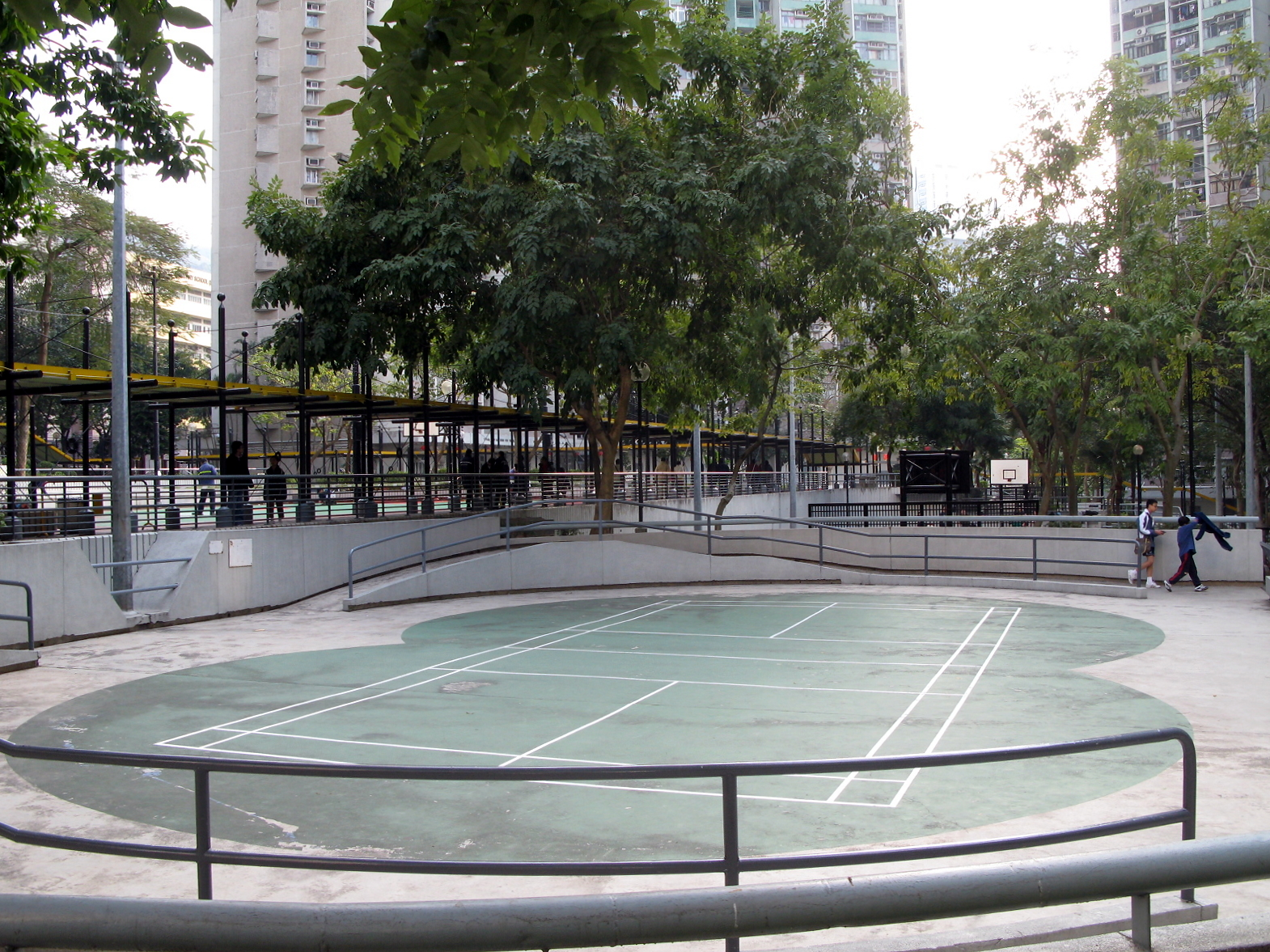 HK Yiu On Estate, Ma On Shan